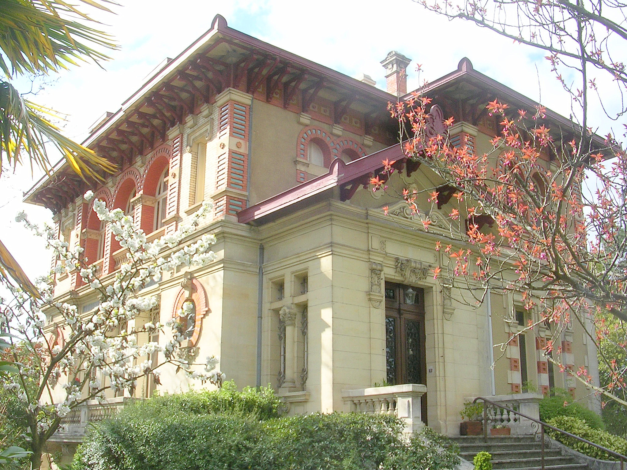 Mansion Alexandre Dumas in Arcachon, France